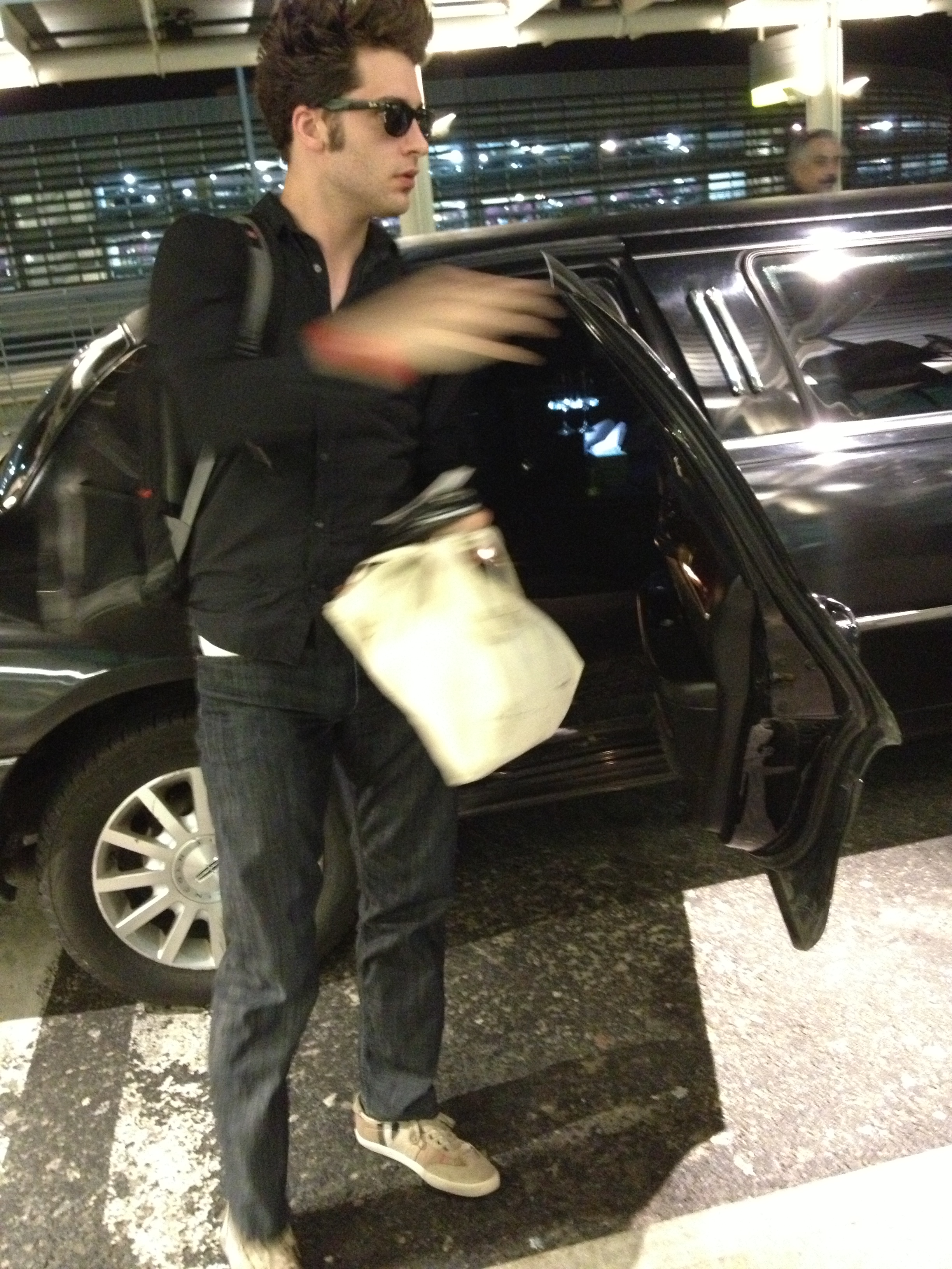 Musician Brian Larsen in Toronto, Canada in April, 2013.